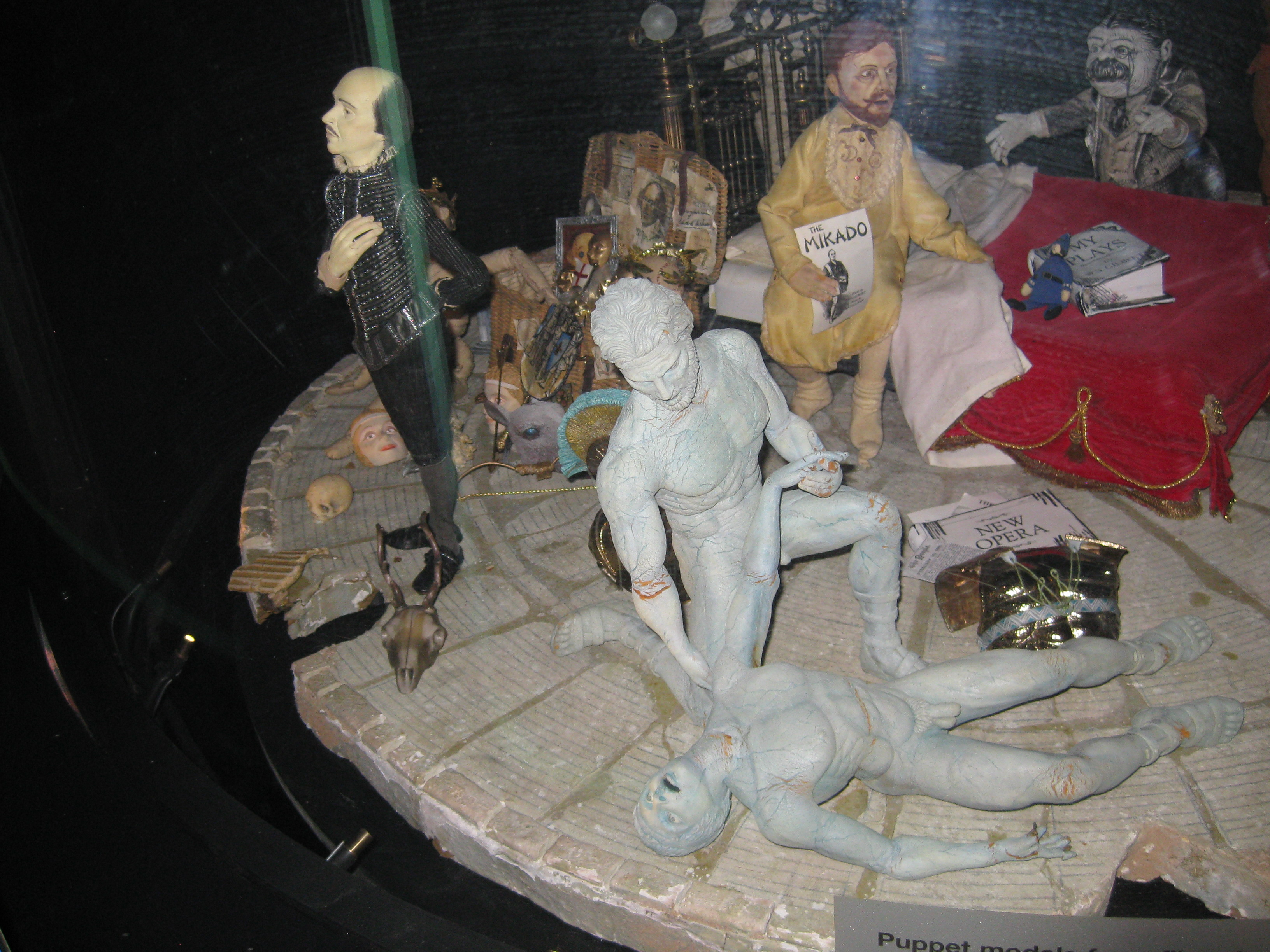 Selection of models of characters for animated films by Barry Purves at the National Media Museum, Bradford. On the left is William Shakespeare. At the front are Achilles and Patroclus.